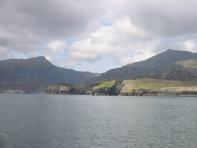 Nicolson's Leap, South Uist. The rock in the foreground is known as Nicolson's Leap- if true, this must have been quite a feat! The view is looking W, the mountains in the background are Beinn Mhor (L) and Hecla (R)